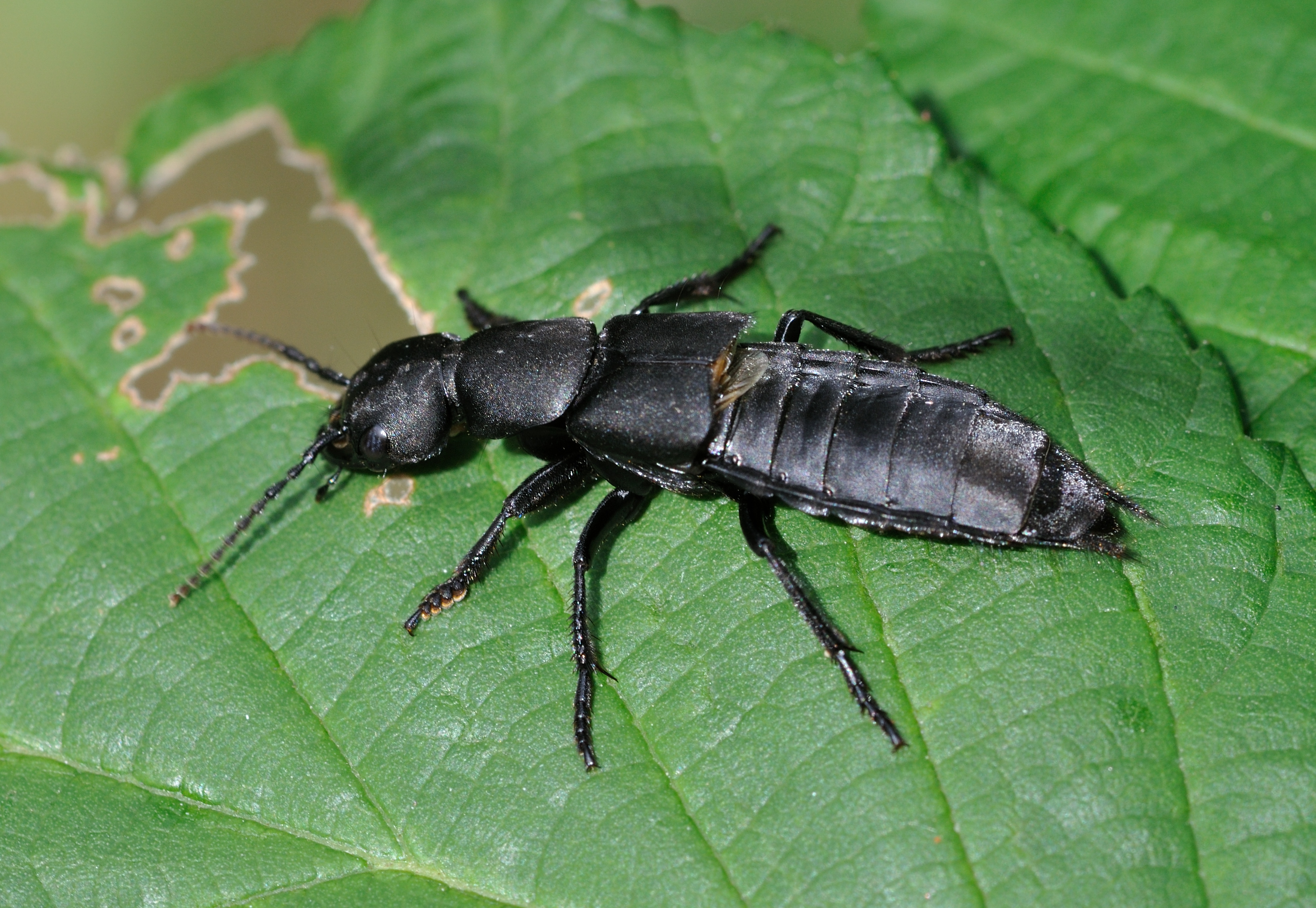 Devil's Coach Horse Beetle (Ocypus olens) in Oberursel, Germany.